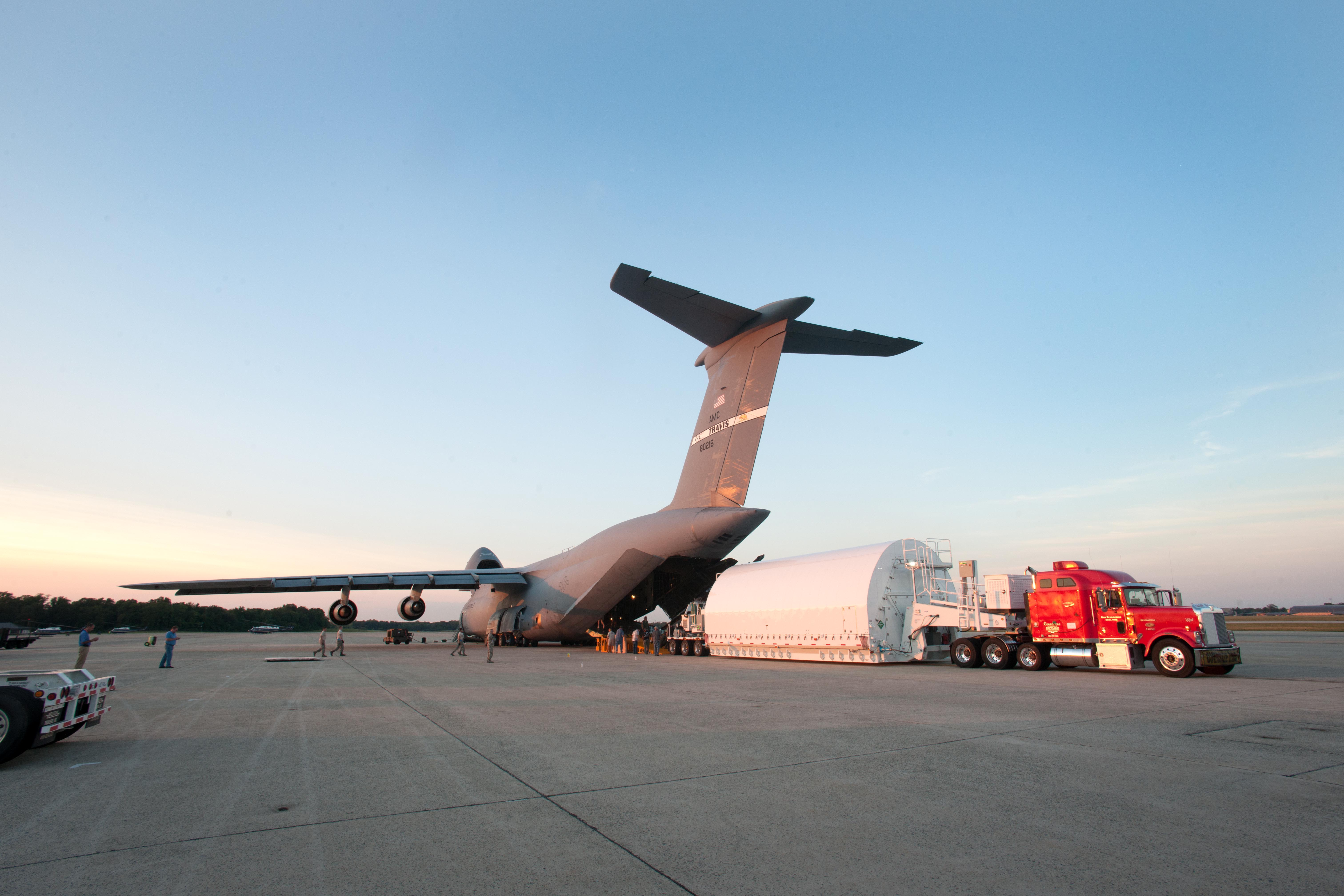 The James Webb Space Telescope's backplane is in this transport, known as STTARS - the Space Telescope Transporter for Air Road and Sea. The backplane is the "spine" of the telescope and it supports mirror segments. This test item was sent from Northrop Grumman in Redondo Beach, CA to NASA Goddard in Greenbelt, MD. It first flew on a C-5 aircraft and then was driven by truck to Goddard. Read more: Credit: NASA/Desiree Stover NASA Image Use Policy Follow us on Twitter Like us on Facebook Subscribe to our YouTube channel Follow us on Google Plus Follow us on Instagram